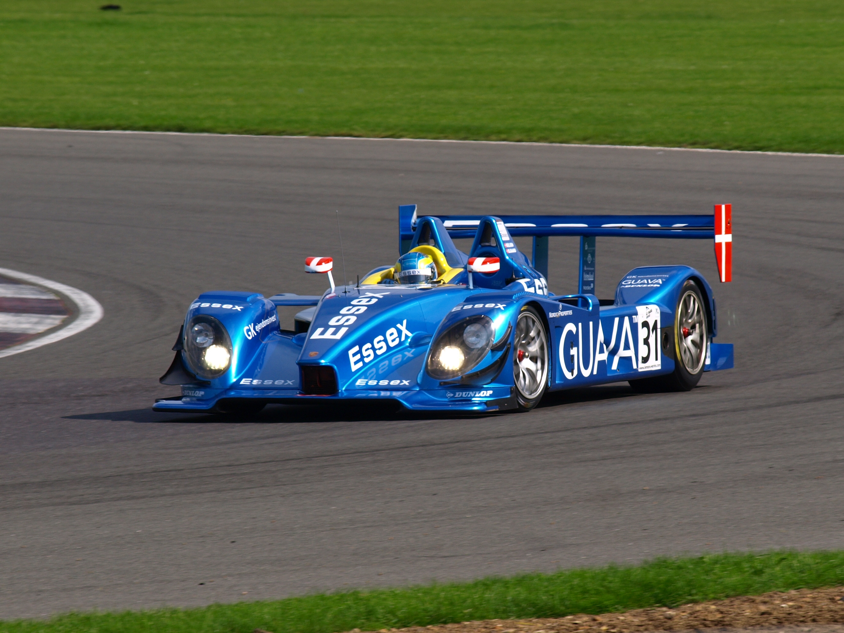 Team Essex's Porsche RS Spyder at the 2008 1000km of Silverstone.